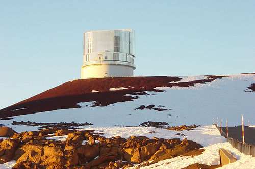 The Subaru Telescope at the summit of Mauna Kea, Hawai'i.